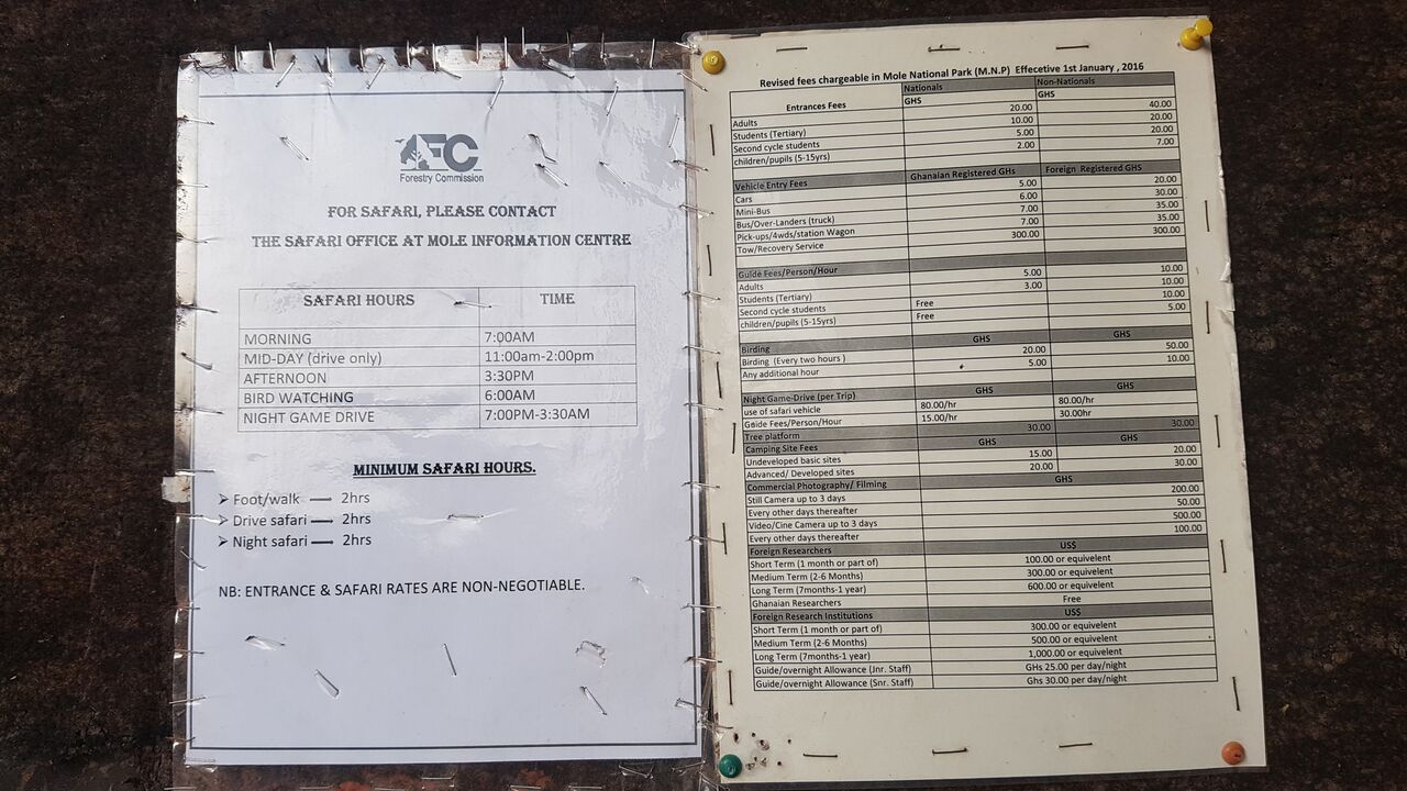 Mole Nationalpark hours prices and activities 2018